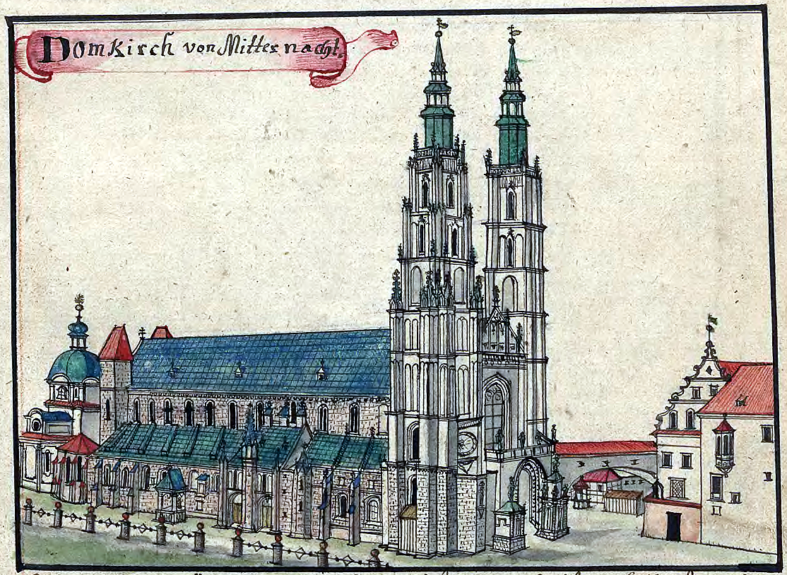 Wroclaw Cathedral